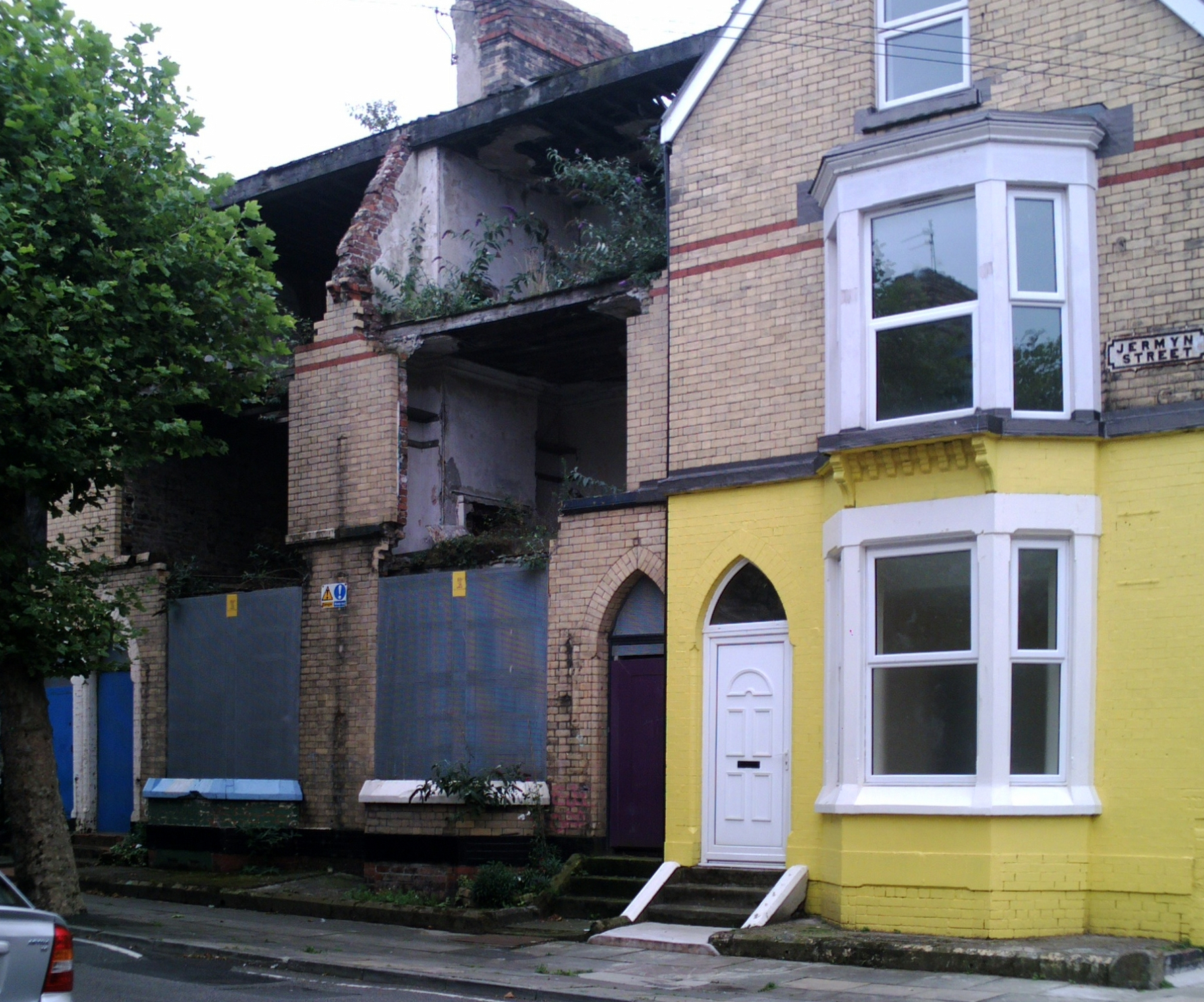 This is a very run-down area which clearly had its heyday. To the north of Princes Road, the area is Granby. Apart from some new builds, most of the victorian houses seem to be boarded up. A shame.